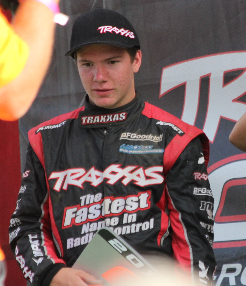 The Stadium Super Trucks second place finisher Sheldon Creed at Round 10 at Crandon International Off-Road Raceway. He primarily has competed in the Lucas Oil Off Road Racing Series on the West Coast.